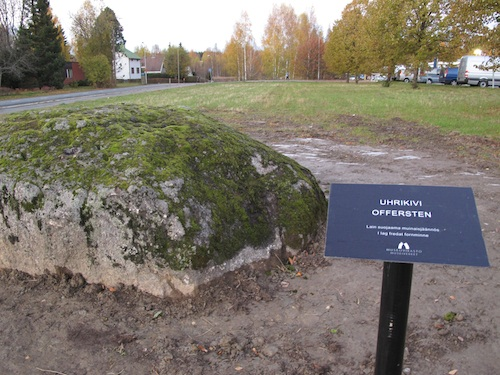 Uhrikivenkatu 11 sacrificial stone at Kauriala, Hämeenlinna, Southern Finland. The stone was removed from its original place to a more convenient area (in the photo) in 2010.